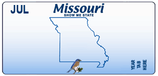 New Missouri License Plate